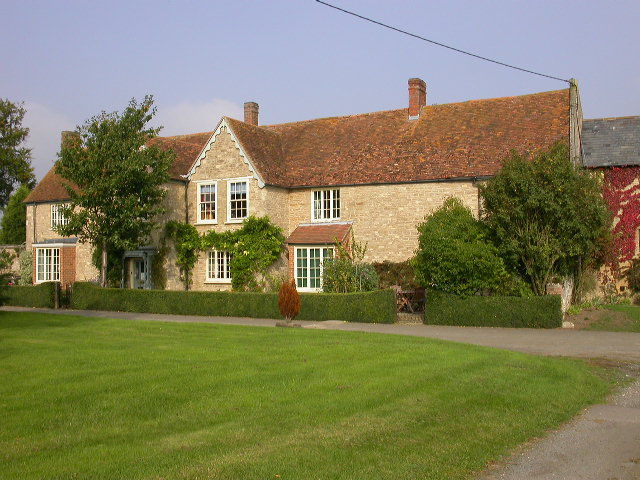 Home Farm. From the lane to the south of the farm house.